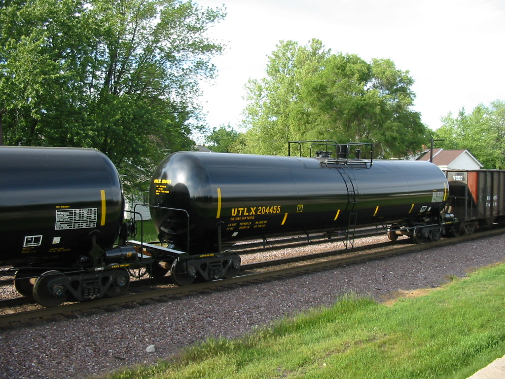 UTLX 204455, a modern tank car in a westbound Union Pacific Railroad train passing through Rochelle Railroad Park, Rochelle (Illinois)